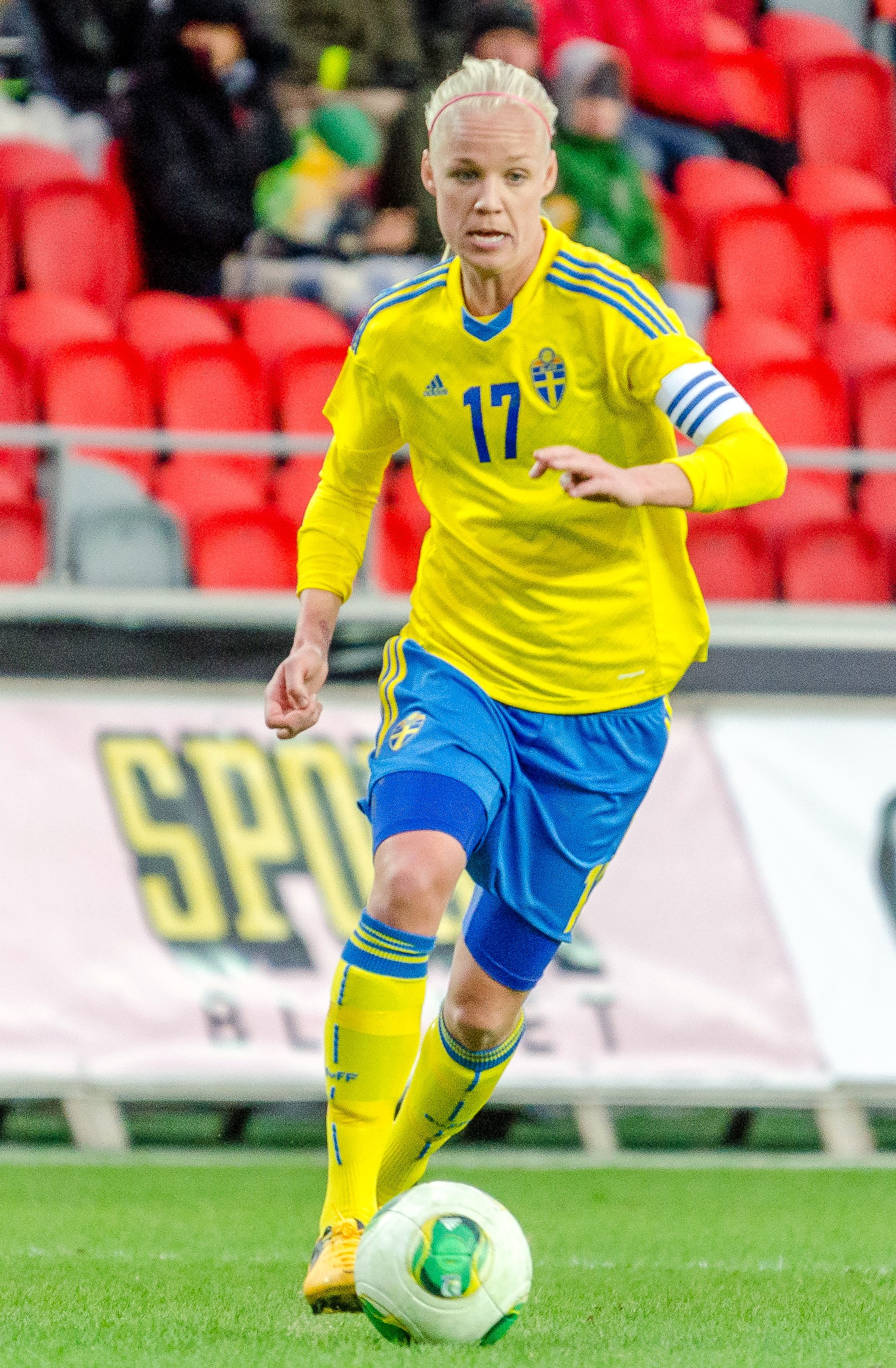 Swedish midfielder Caroline Seger playing for the Swedish Women's National team in the 2-0 victory over Iceland at Myresjöhus Arena, 6 April 2013.